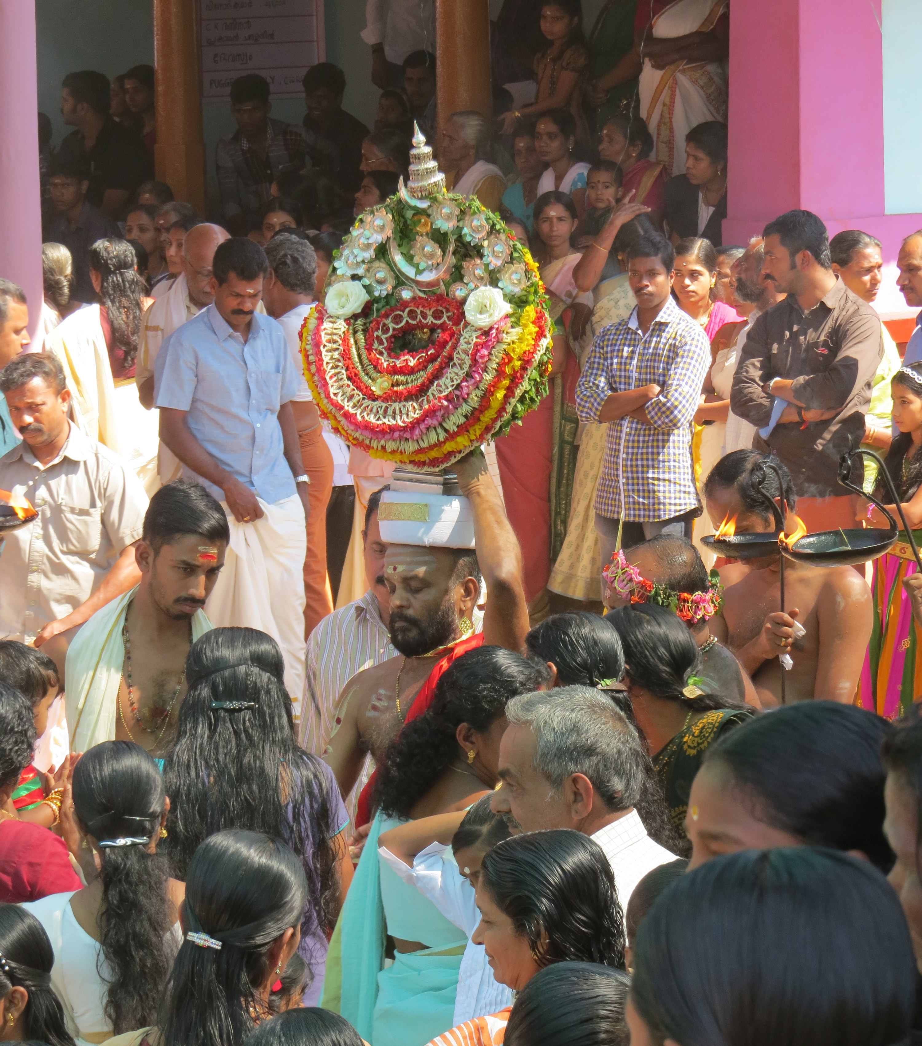 Thidambunruththam - തിടമ്പുനൃത്തം - വയത്തൂർ കാലിയാർ ശിവക്ഷേത്രത്തിൽ നിന്നും